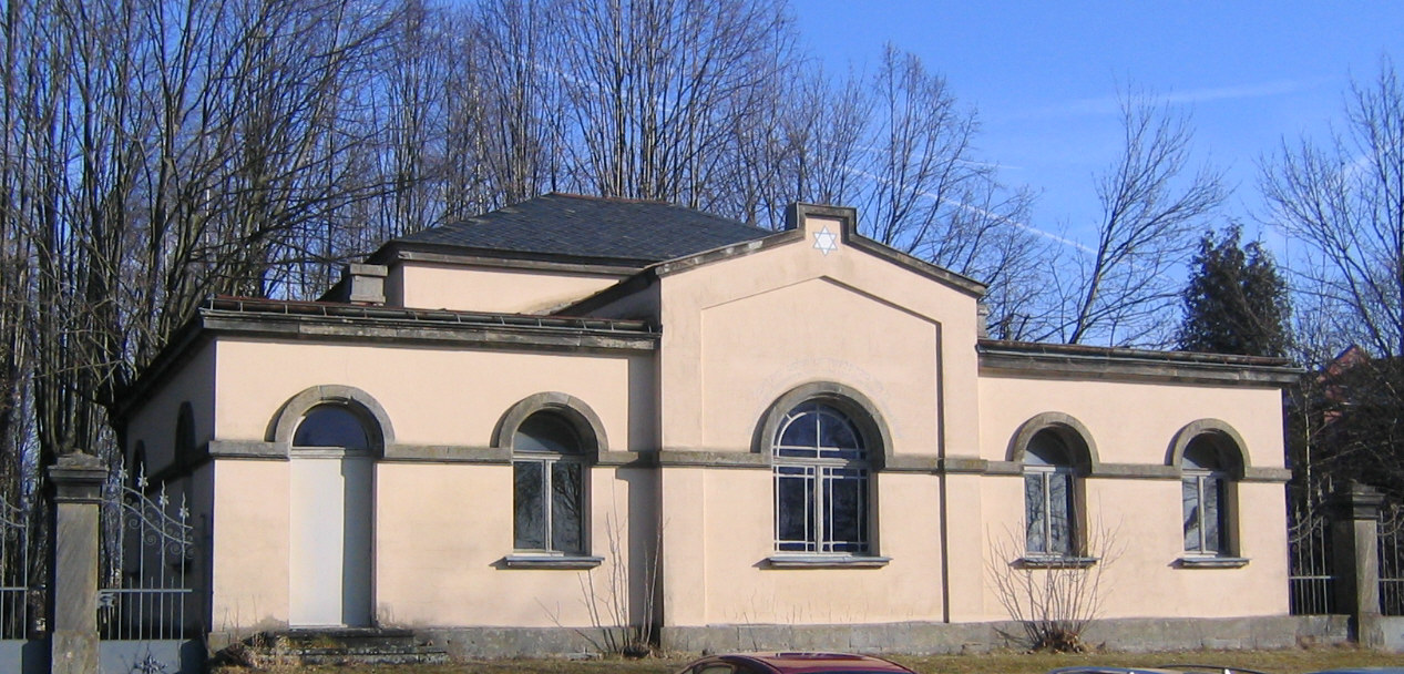 Tahara-house of the jewish cemetery in Bayreuth Tahara-Haus für die rituelle Vorbereitung der Toten auf dem jüdischen Friedhof in Bayreuth